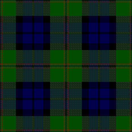 Dundas tartan, as published in the Vestiarium Scoticum. Modern thread count: Bk4 G4 R2 G48 Bk24 B32 Bk8.